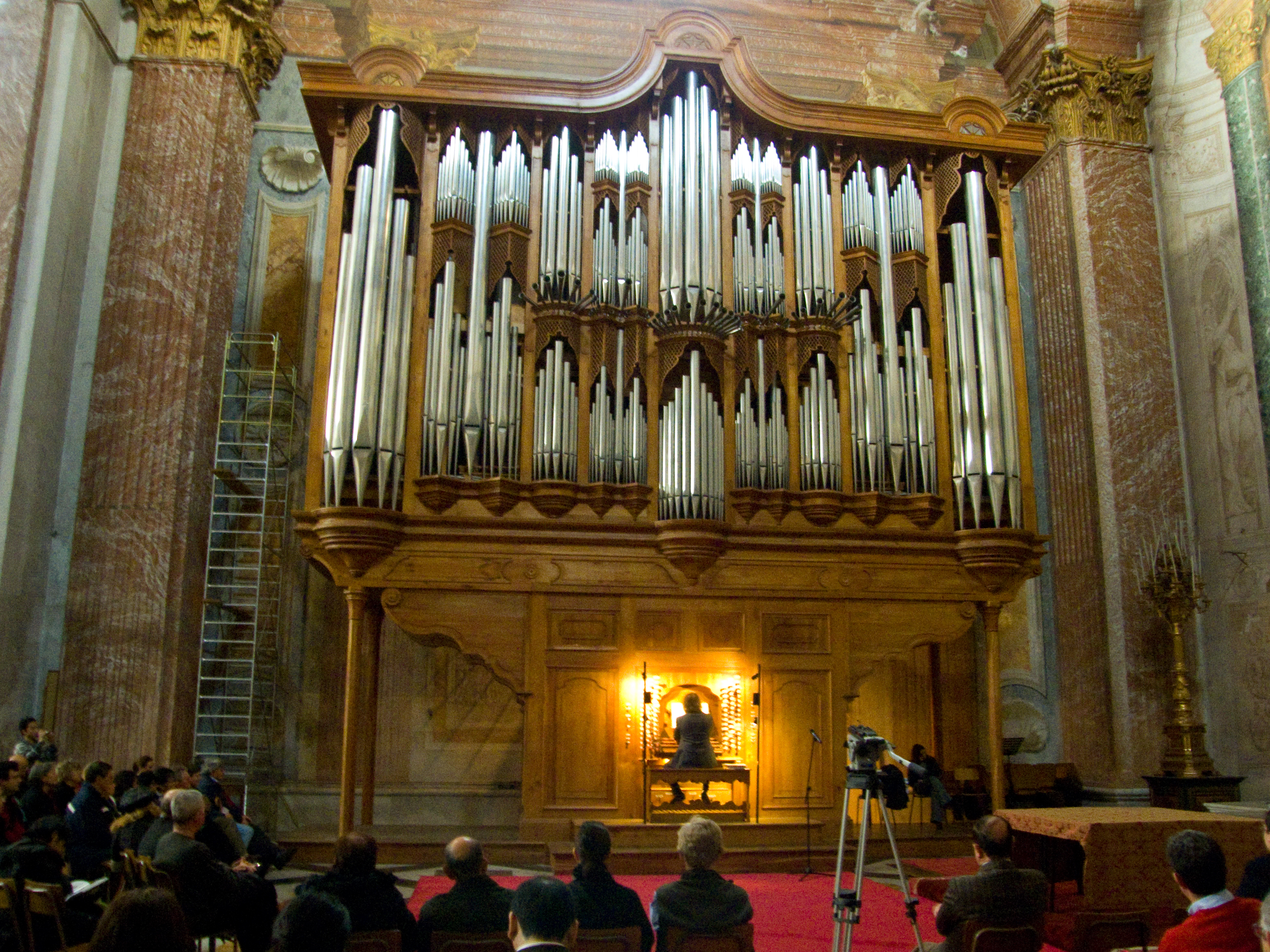 Santa Maria degli Angeli e dei Martiri Organ; Christmas concert 2009